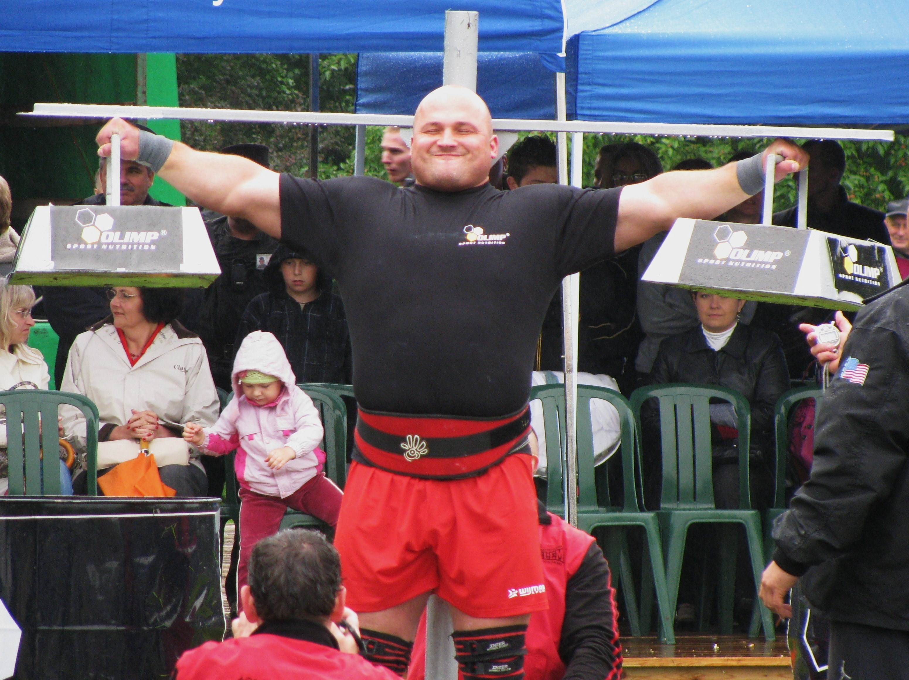 Gabriel Kowalski - a strength athlete from Poland